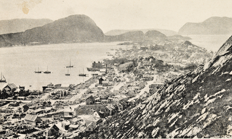 Tittel / Title: Fra Aalesund efter Branden Motiv / Motif: Postkort. Den store bybrannen i Ålesund fant sted natt til 23. januar 1904. Dato / Date: 1904 Fotograf / Photographer: ukjent Utgiver / Publisher: M. B. Rønneberg Sted / Place: Møre og Romsdal, Ålesund Eier / Owner Institution: Nasjonalbiblioteket / National Library of Norway Lenke / Link: Bildesignatur / Image Number: blds_03801